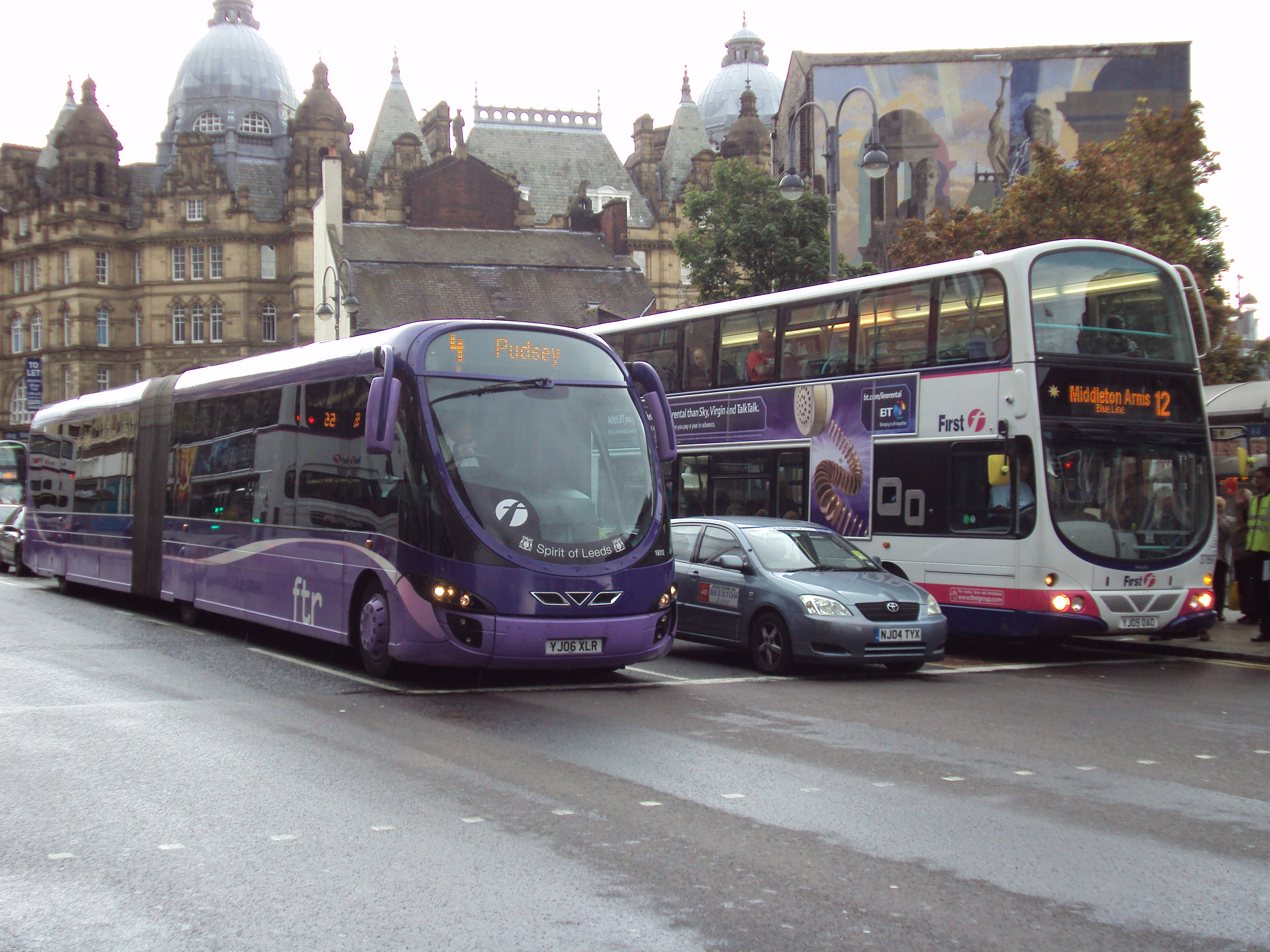 Two buses waiting for the lights to change while facing south on New Market Street in the city centre in Leeds, England. On the left is an ftr bus (#19012 reg. YJ06 XLR Spirit of Leeds) en route to the terminus at Pudsey. The ftr is operated by First Leeds using special vehicles in this purple livery. Alongside it is an example of one the company's more conventional buses in their normal livery, (#37697 reg. YJ09 OAO). The Corn Exchange bus stands are to the right. The domes in the background are part of the Kirkgate Market buildings.